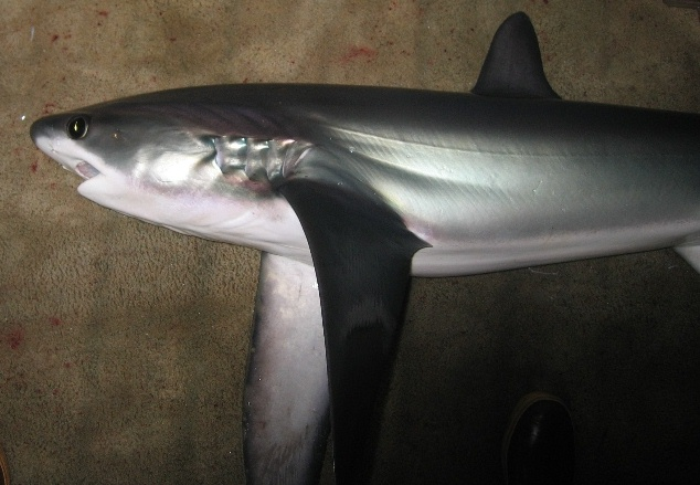 Pelagic thresher shark (Alopias pelagicus)